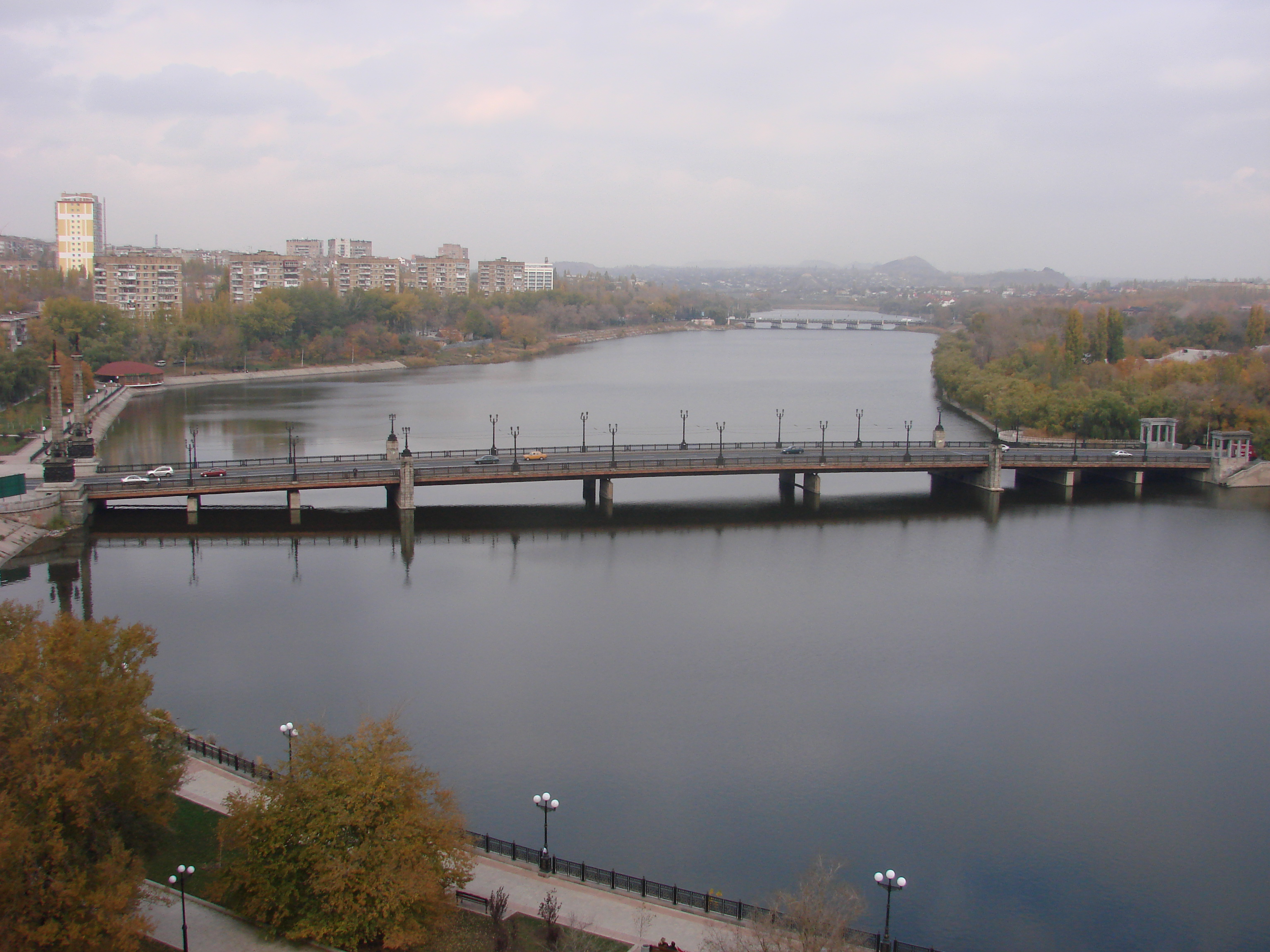 The Kalmius river, Donets'k, Ukraine